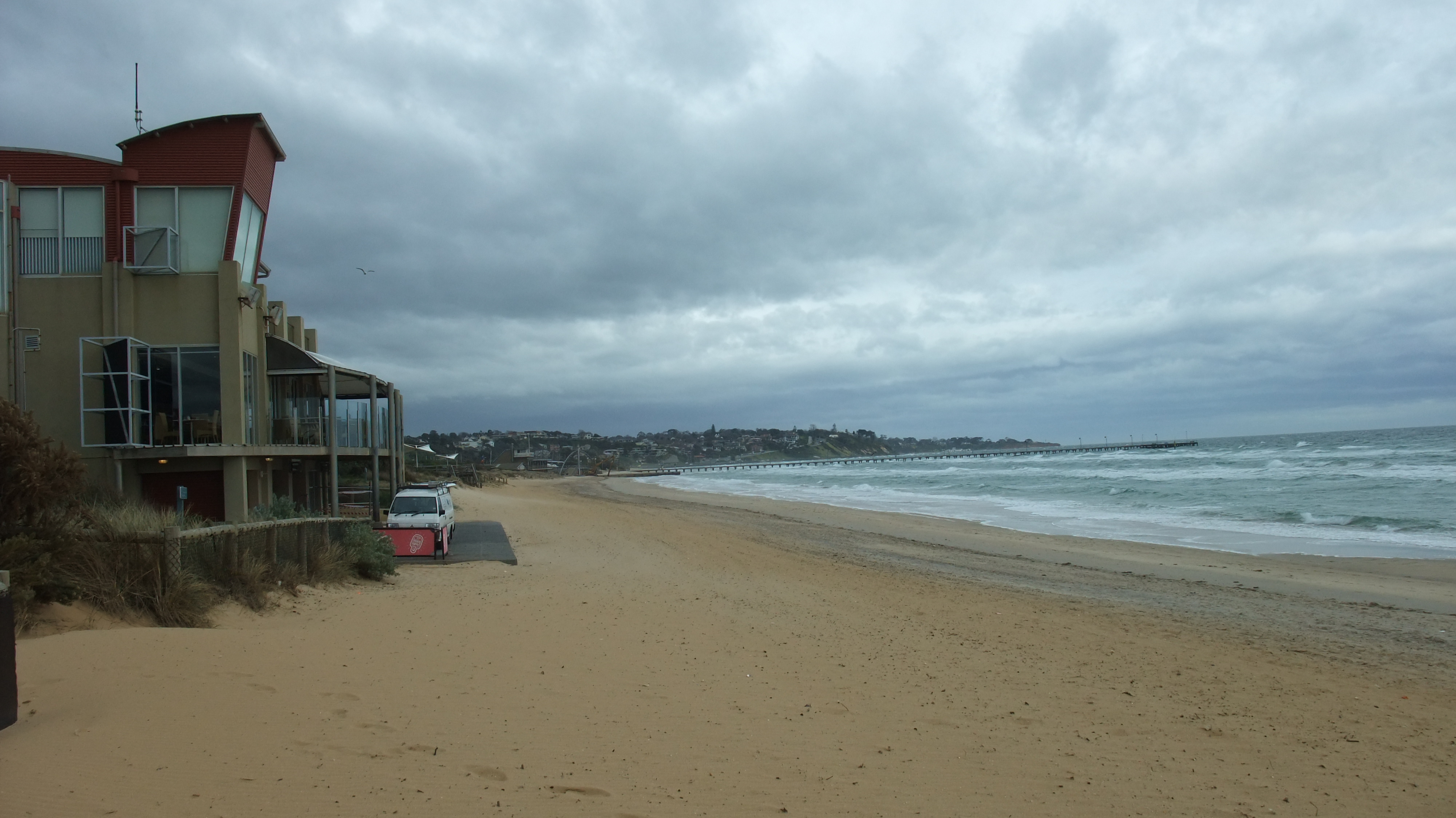 Frankston beach scene